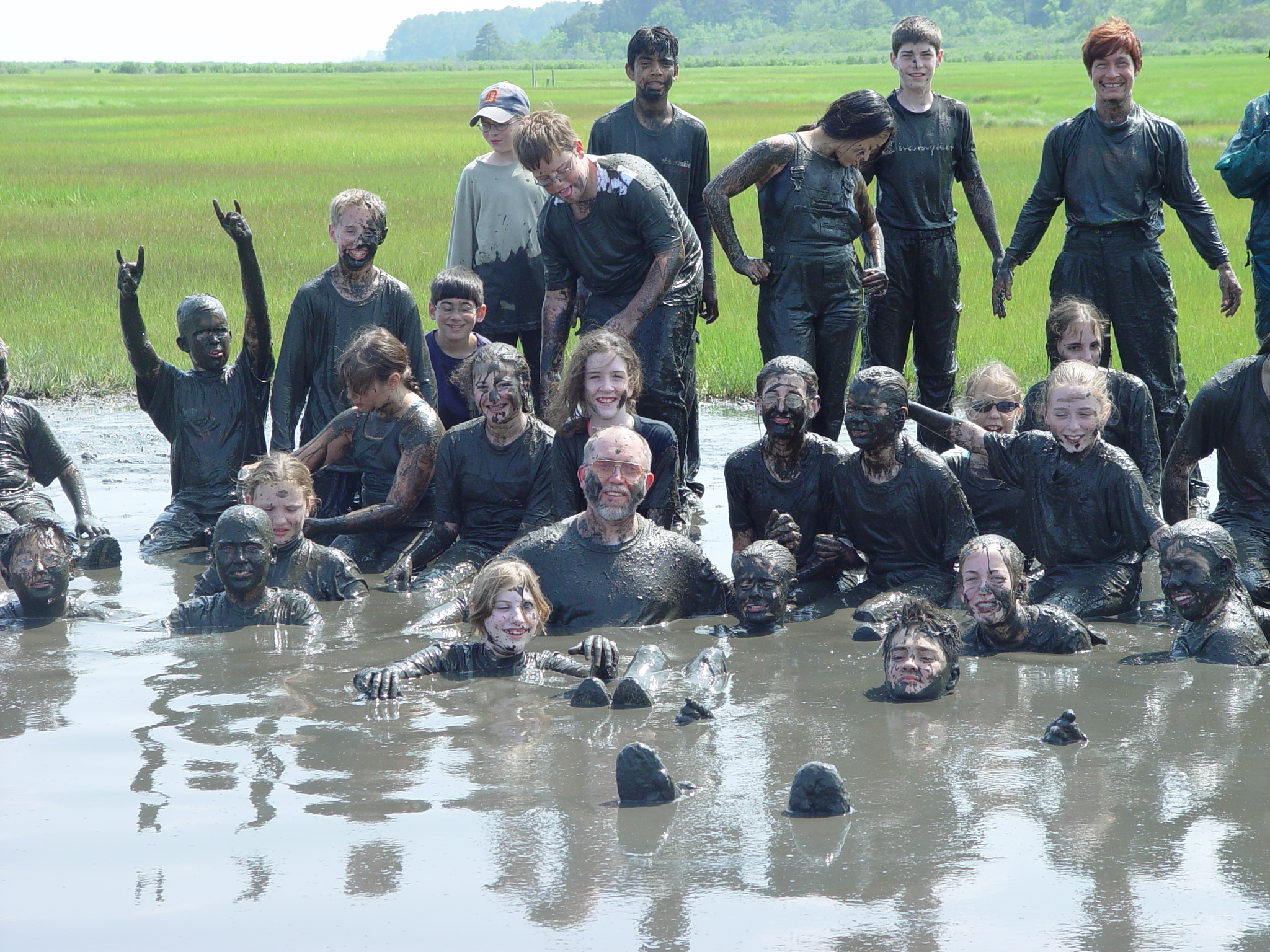 Picture of marsh in Wallops Island, VA